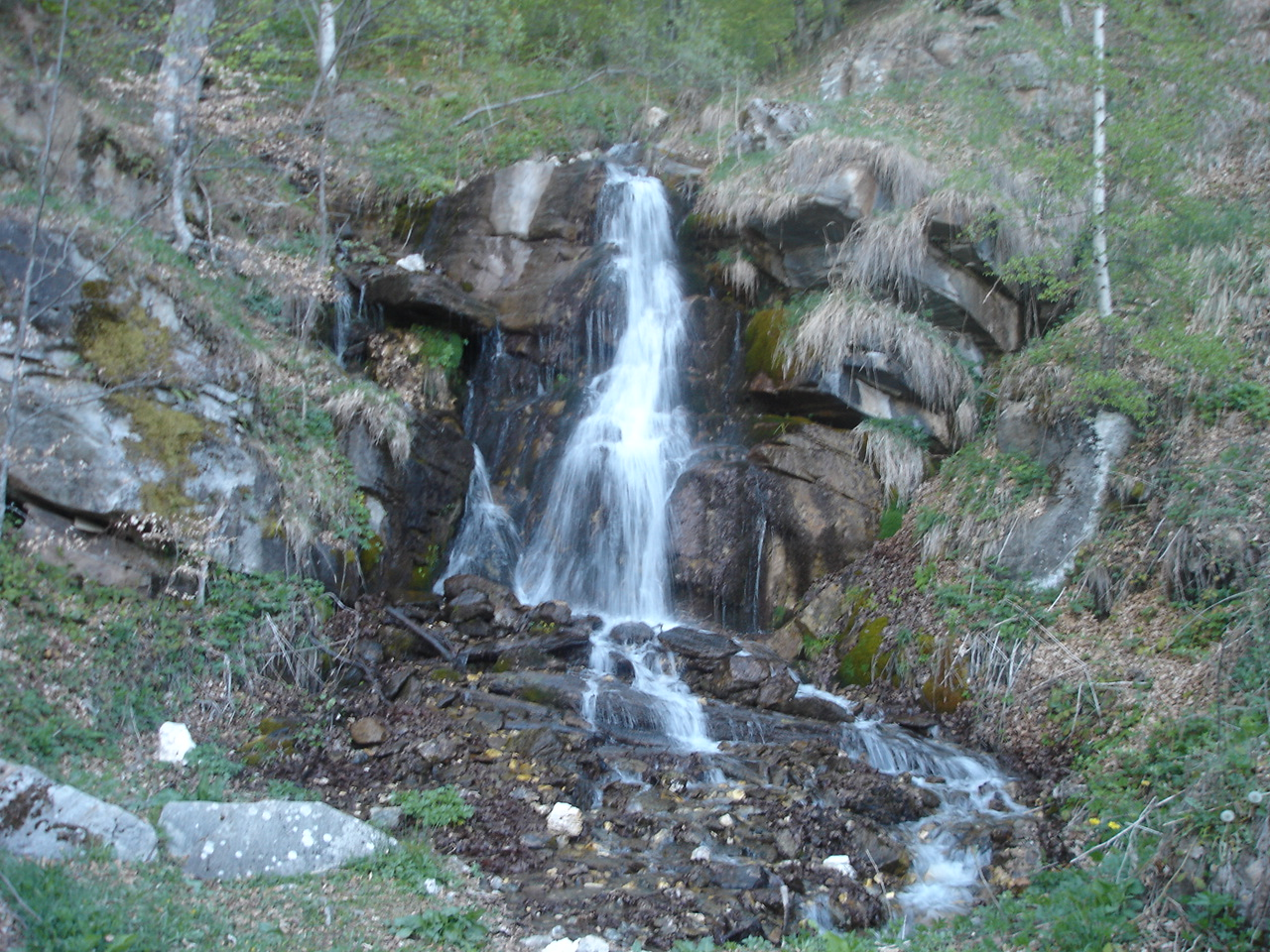 Waterfall on Cheples River on Mokra mountain, Macedonia